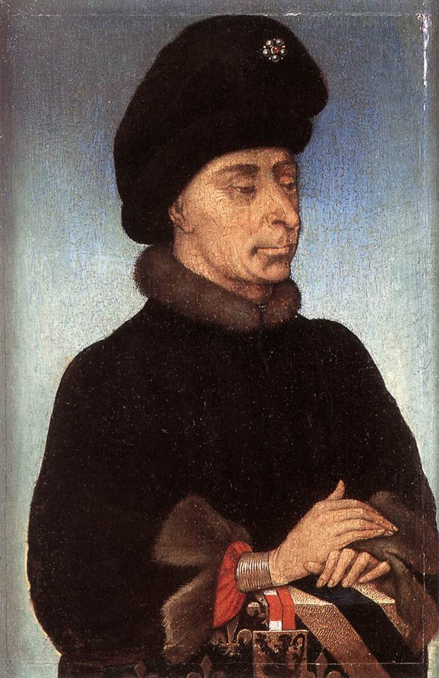 Portrait of John the Fearless (1371-1419), second Duke of Burgundy from the House of Valois. Half length, facing right. His hands are resting on a prayer desk, on which is draped a tapestry with the coats of arms of Valois, Burgundy (inherited by from his father, Philip the Bold) and the Flemish Lion (inherited from his mother, Margaret of Flanders).